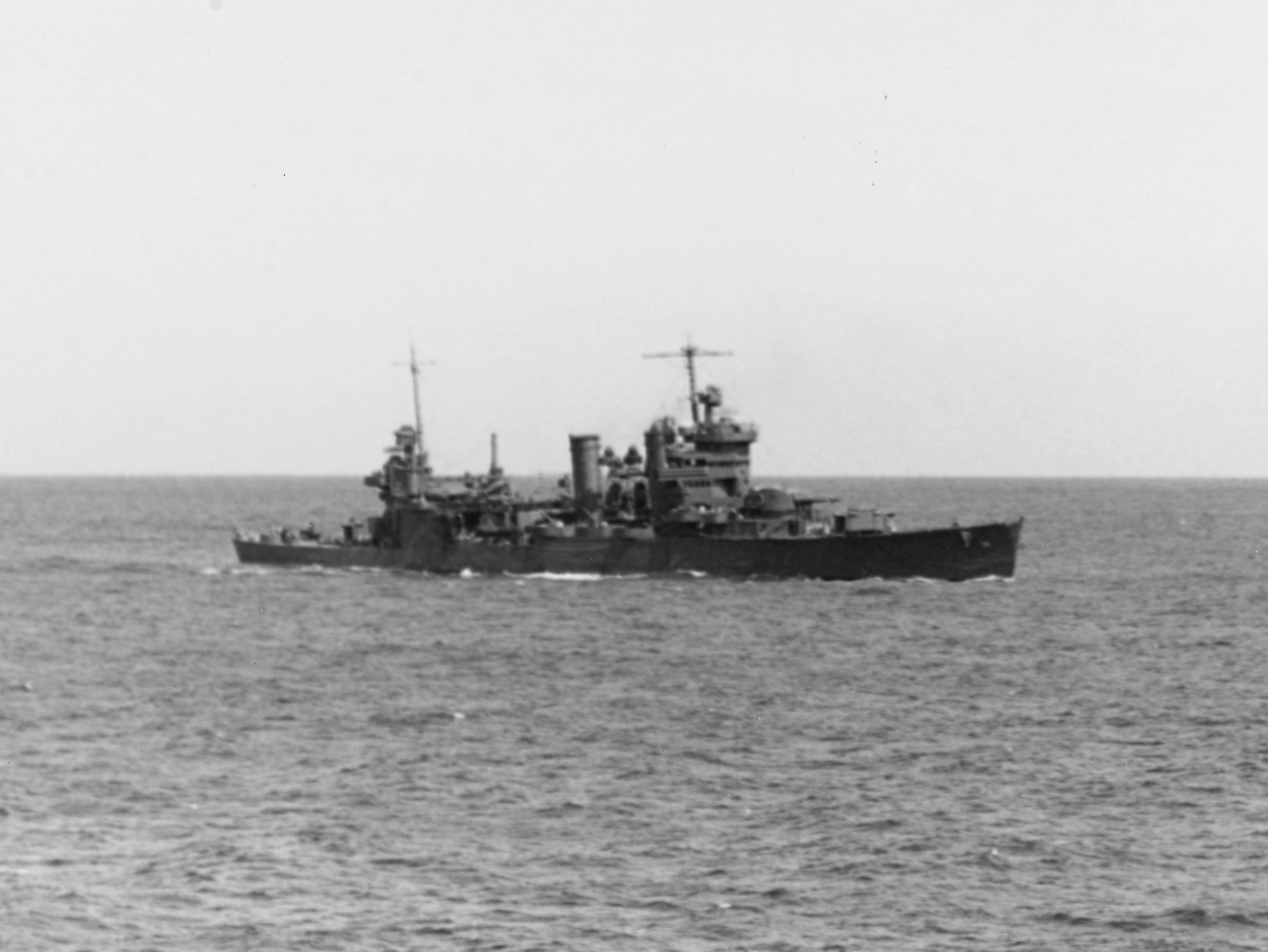 The U.S. Navy heavy cruiser USS Astoria (CA-34) joins Task Force 16 as it approaches Tulagi, about 6 August 1942.